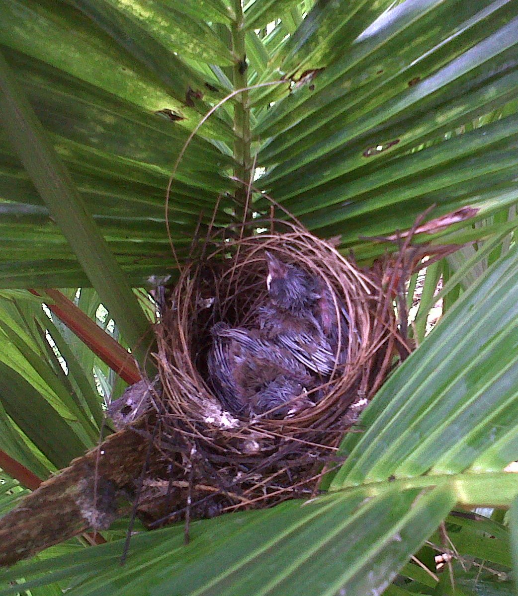 Red-whiskered Bulbul's nest with kids